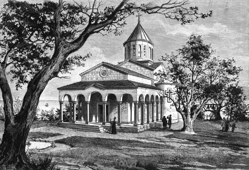 Церква Покрова Богородиці (Нижня Ореанда). Журнал Нива. 1888.